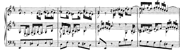 Chorale in canon at the octave in BWV 682 from Clavier-Übung III